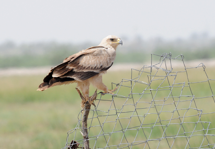 Aquila rapax Tawny Eagle seen at Tal Chhapar Black Buck Sanctuary, District Churu, Rajasthan.